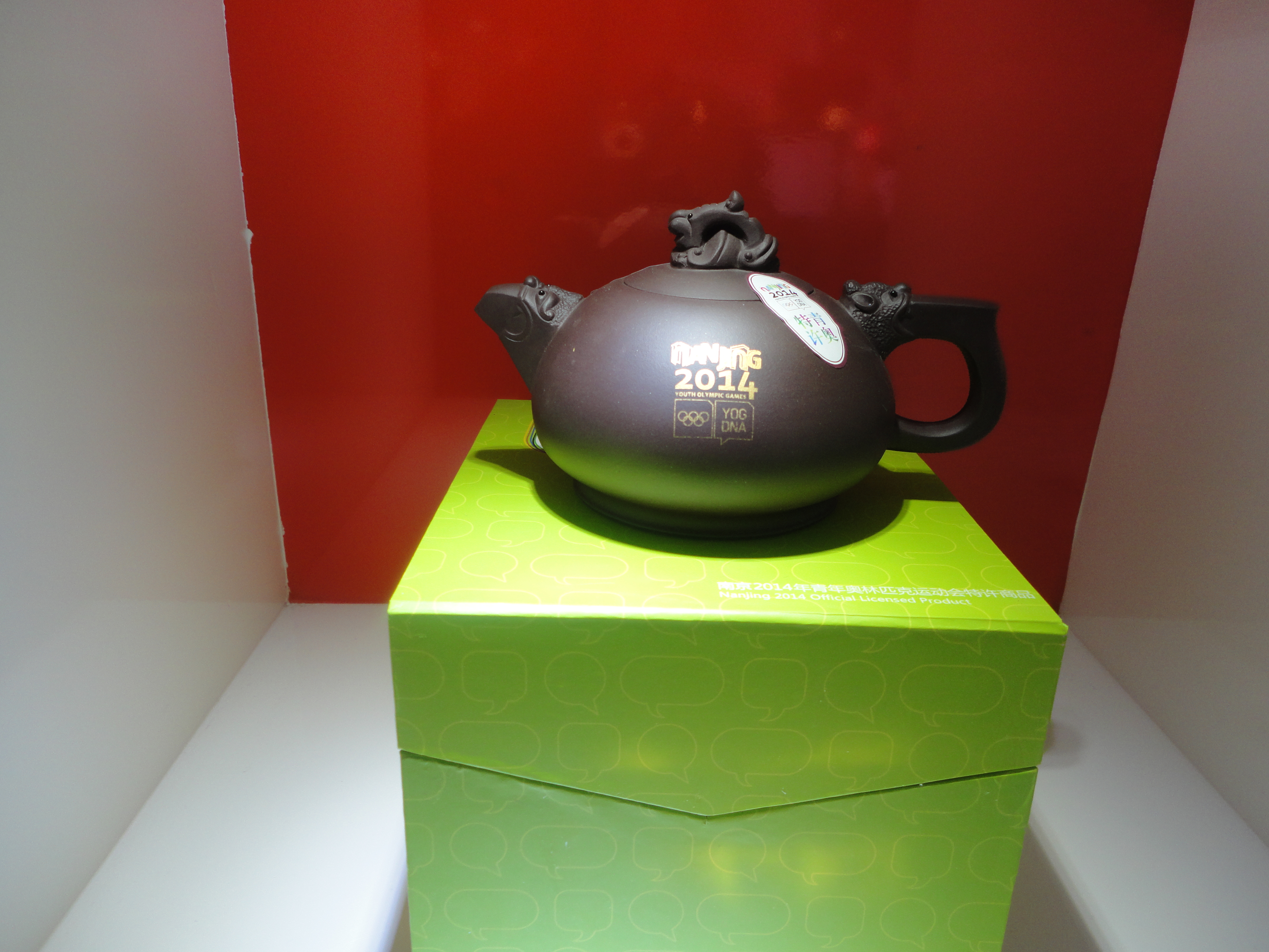 Zisha teapot 3